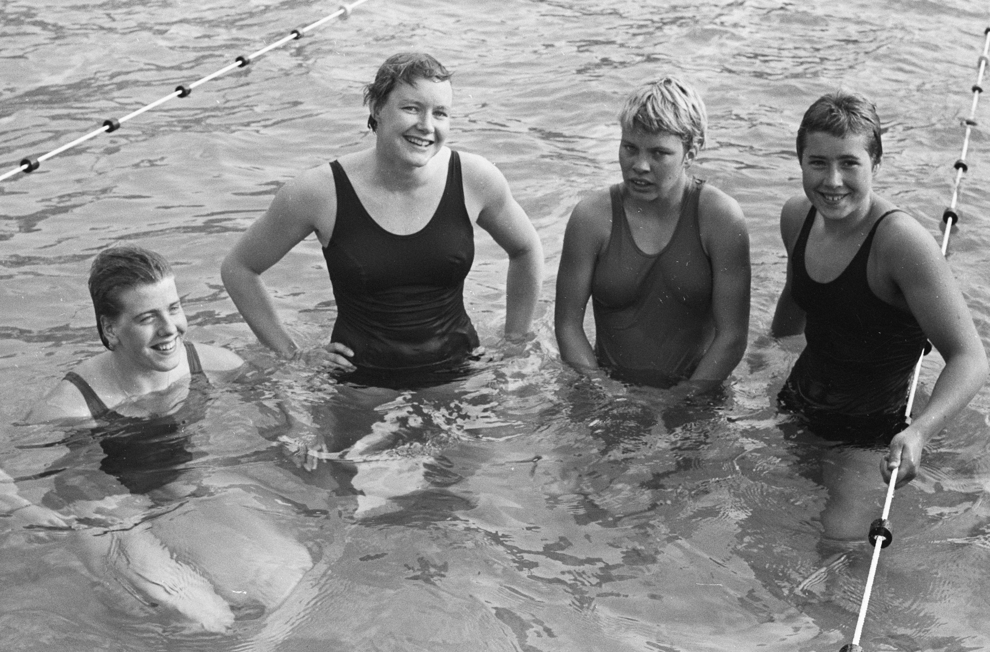 Pauline van der Wildt, Cocky Gastelaars, Ineke Tigelaar and Adrie Lasterie